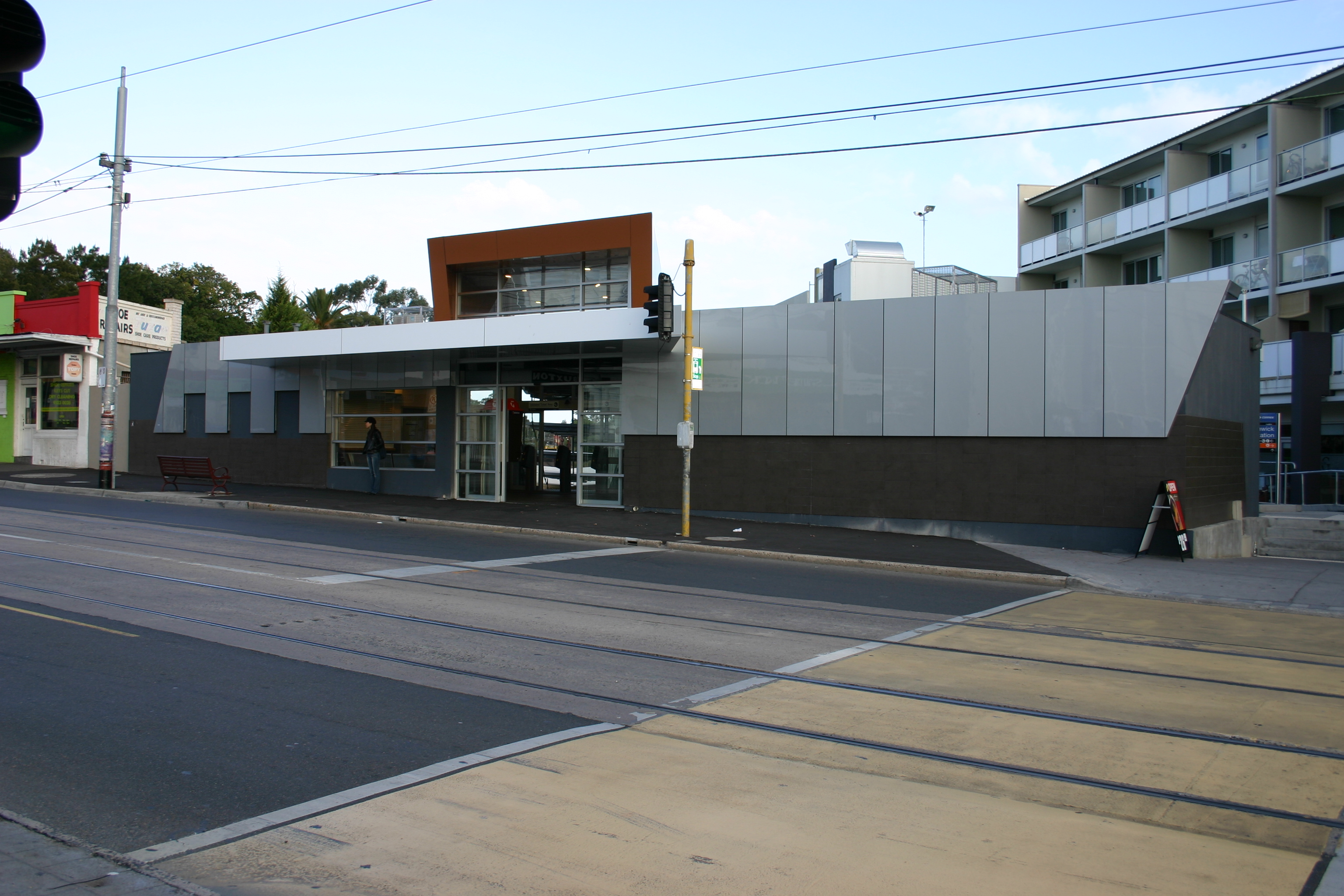 The station building at Elsternwick railway station, Melbourne, viewed from the street. The tram tracks for the number 67 tram are in the foreground.